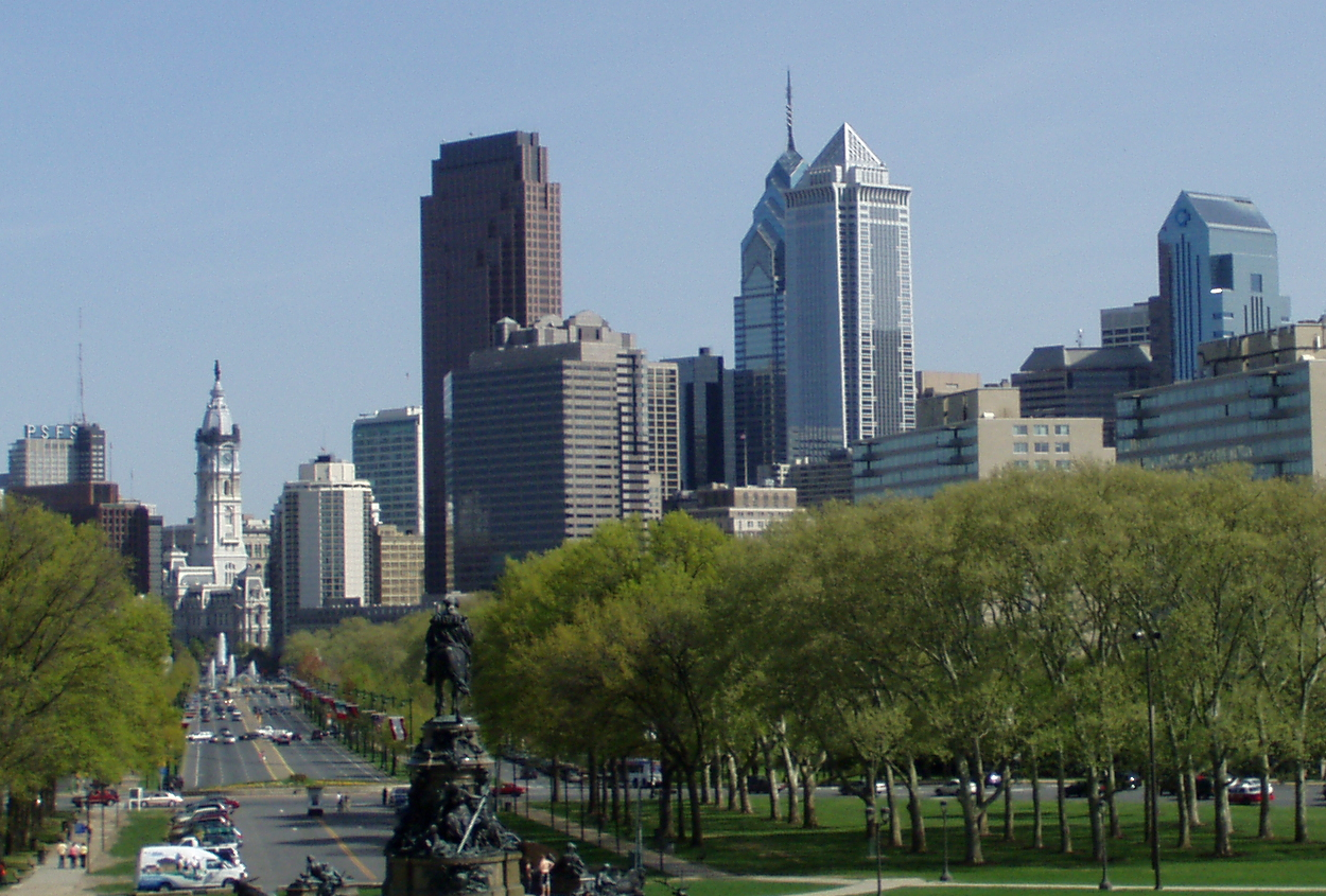 This is a cropped image. For full image and description, see Image:Philadelphia skyline-daytime.JPG. This image appears in Sustainlane's How Green Is Your City? (ISBN 978-0-86571-595-0).